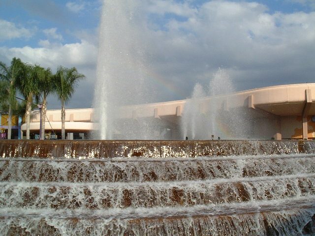 The Fountain of Nations in Epcot in Walt Disney World.